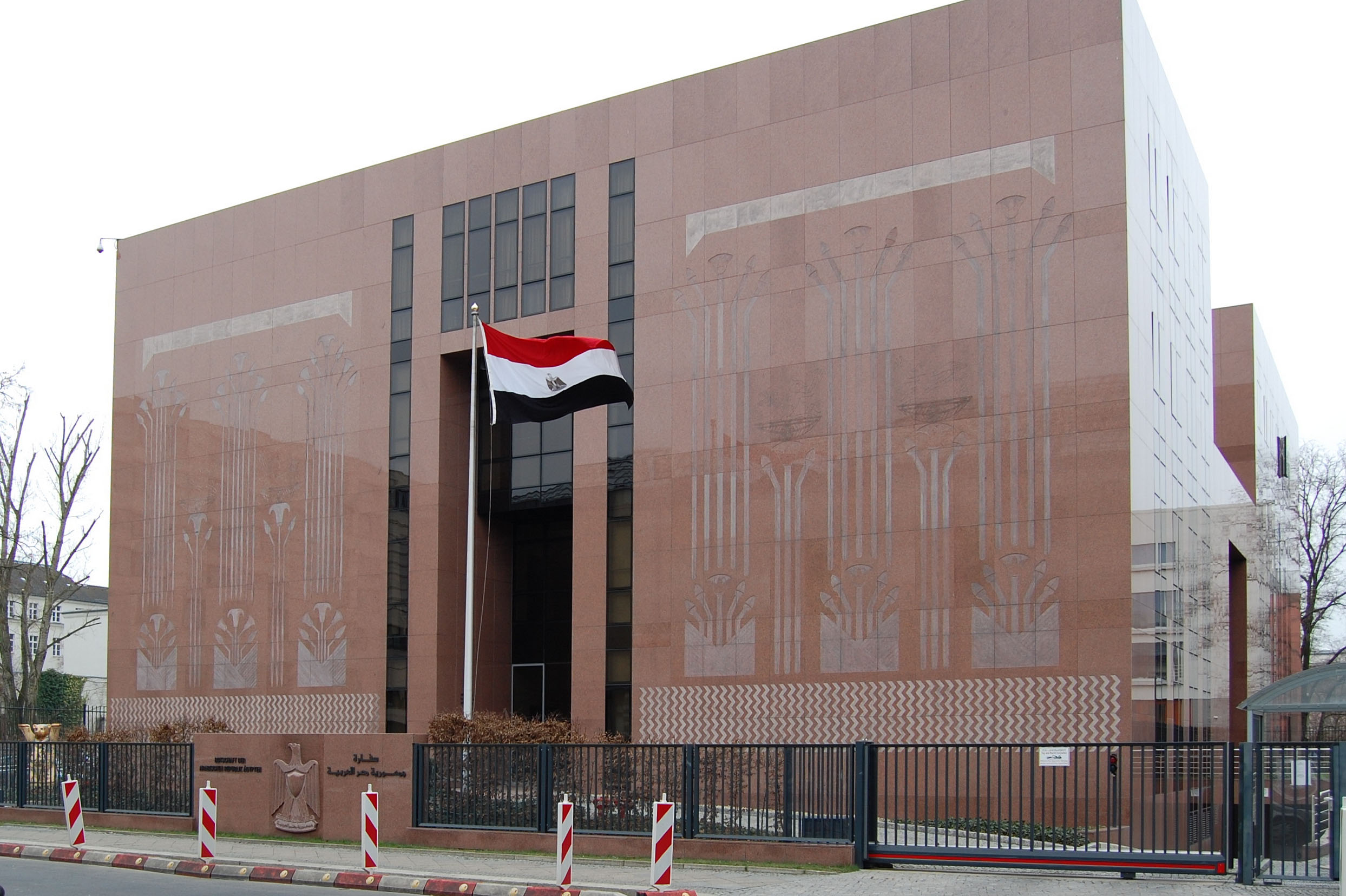 Egyptian Embassy in Berlin